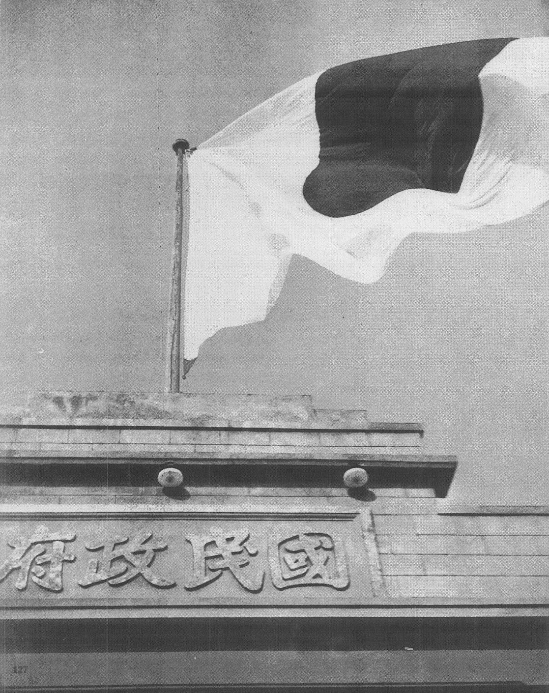 The national flag of Japan on the center pole of the Republic of China government main gate in capital Nanking